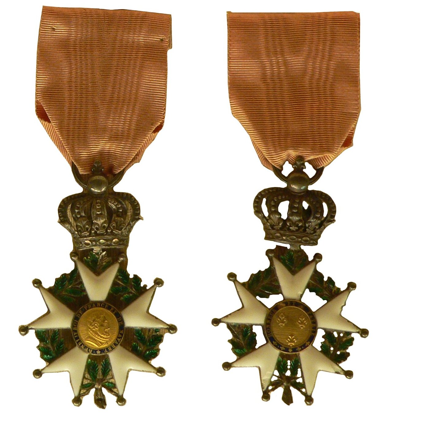 French Legion of Honour, knight insigna, Louis XVIII (1814). Front (left) and rear (right)